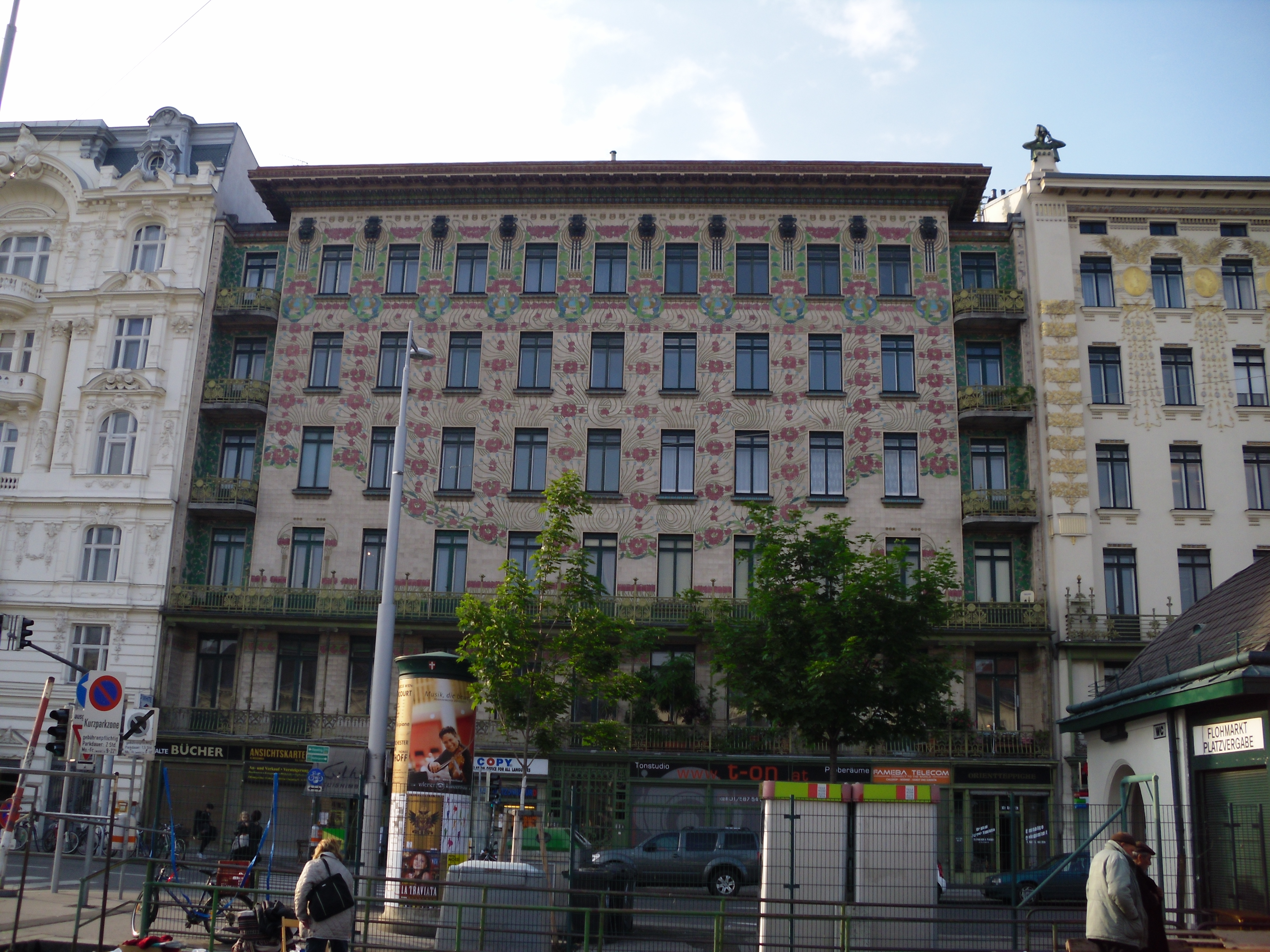 Majolikahaus in Vienna_Otto Wagner